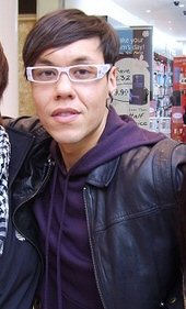 Picture taken of me and Gok Wan - photo cropped to remove other people from shot